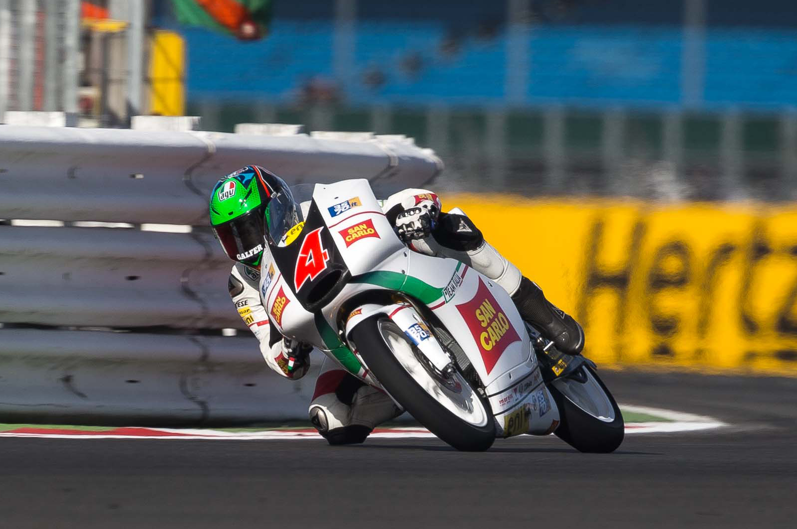 2013 Hertz British Grand Prix - Moto3 - #4 Francesco Bagnaia